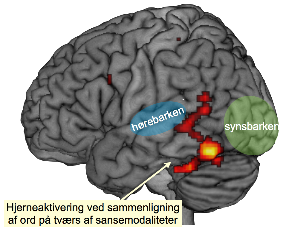 Brain activation pattern when participants judge if a word is the same as the previous word and the word was presented in a different perceptual modality (i.e. going from reading to hearing or vice versa). Data from: Wallentin, M., Michaelsen, J. L. D., Rynne, I., & Nielsen, R. H. (2014). Lateralized task shift effects in Broca“s and Wernicke”s regions and in visual word form area are selective for conceptual content and reflect trial history. NeuroImage, 101, 276–288.